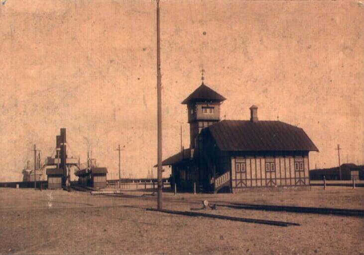 Frihavnsstationen, defunct cargo railway station in Copenhagen.